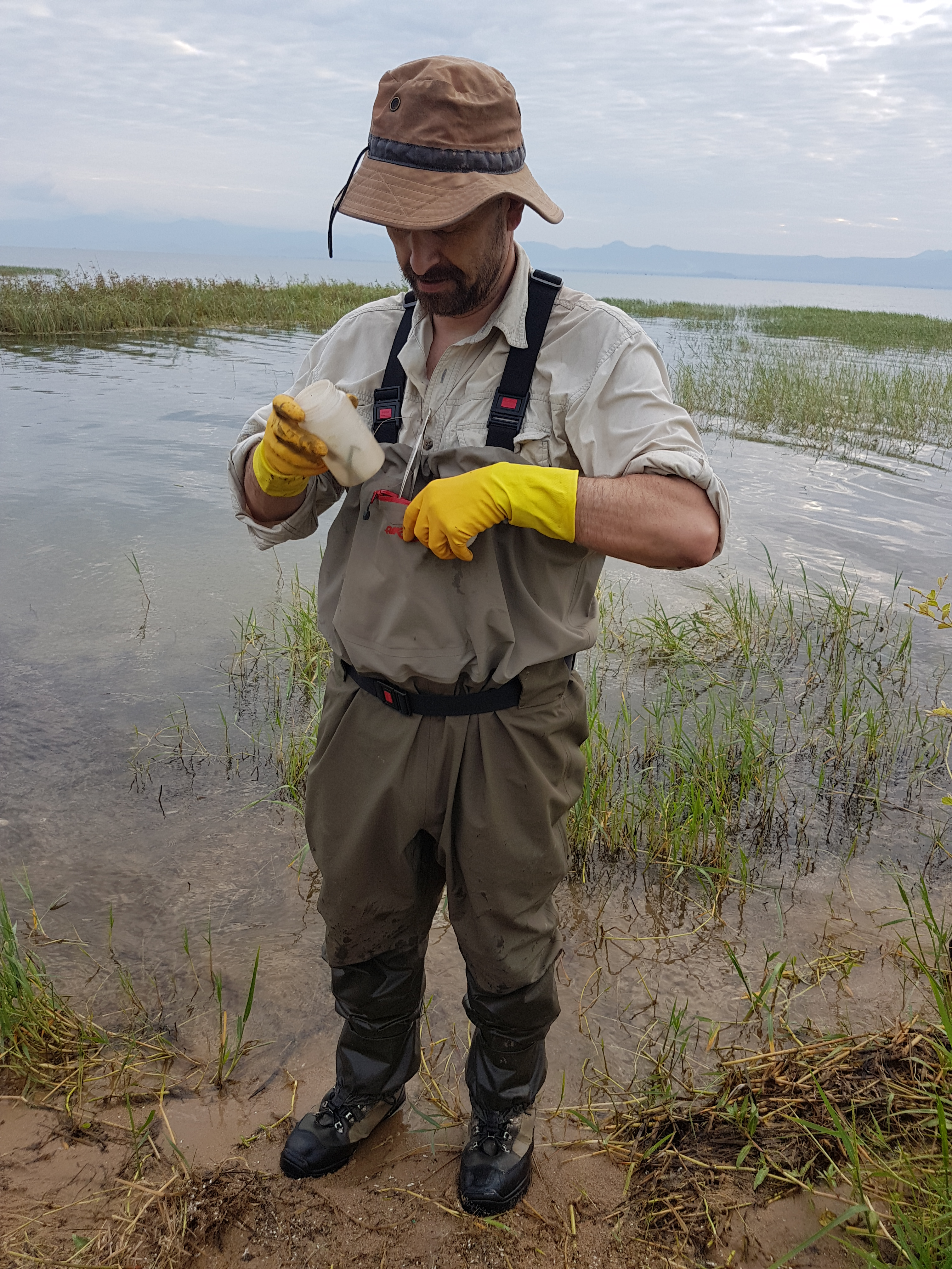 Russ in Malawi in 2018 collecting snails